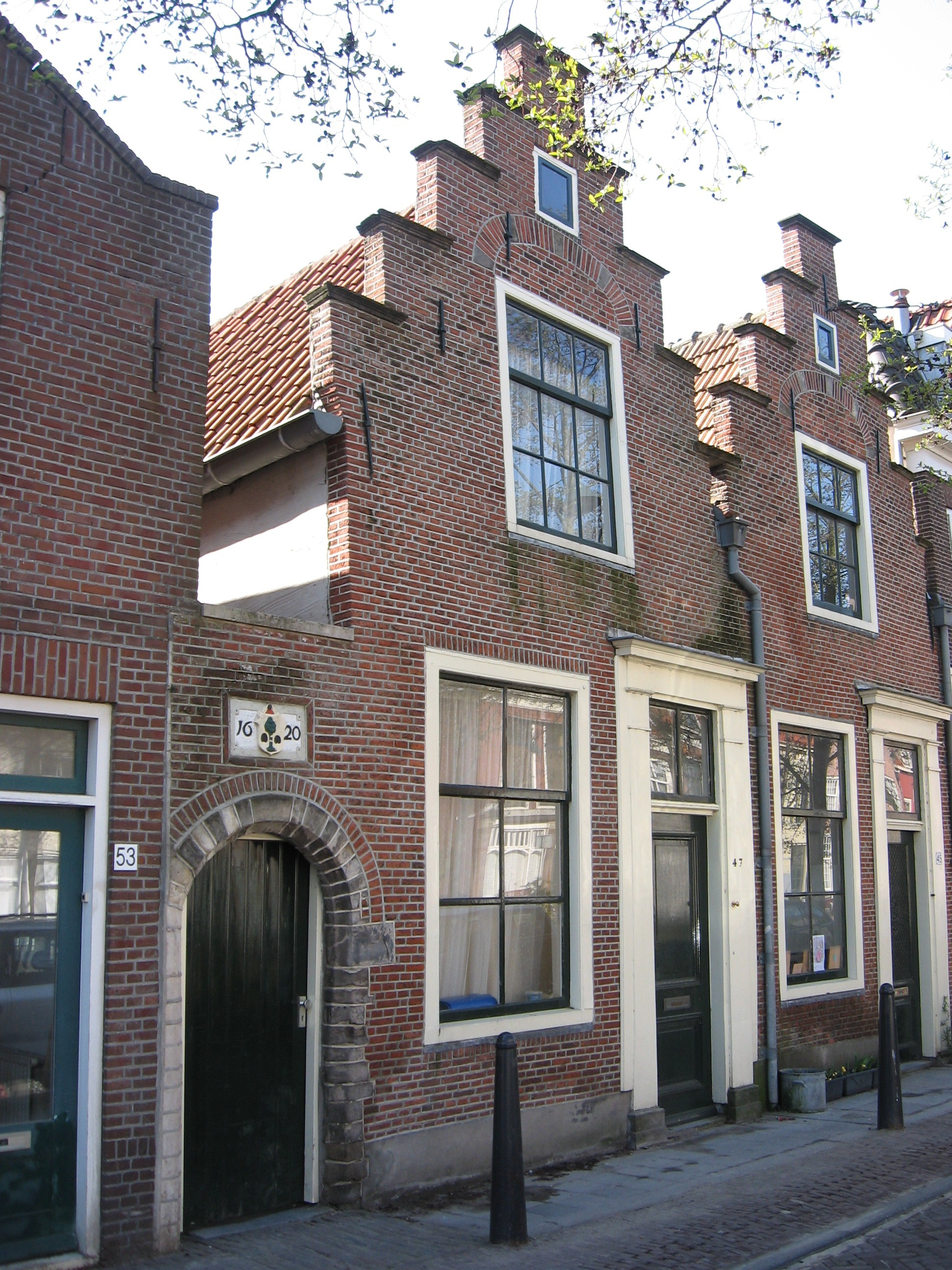 Rijksmonument, Delft - Achterom 47.jpg